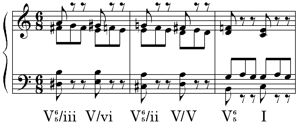 Excerpt from Mendelssohn's Op. 102, No. 3, mm. 47-49. Original work is public domain, image by the uploader.